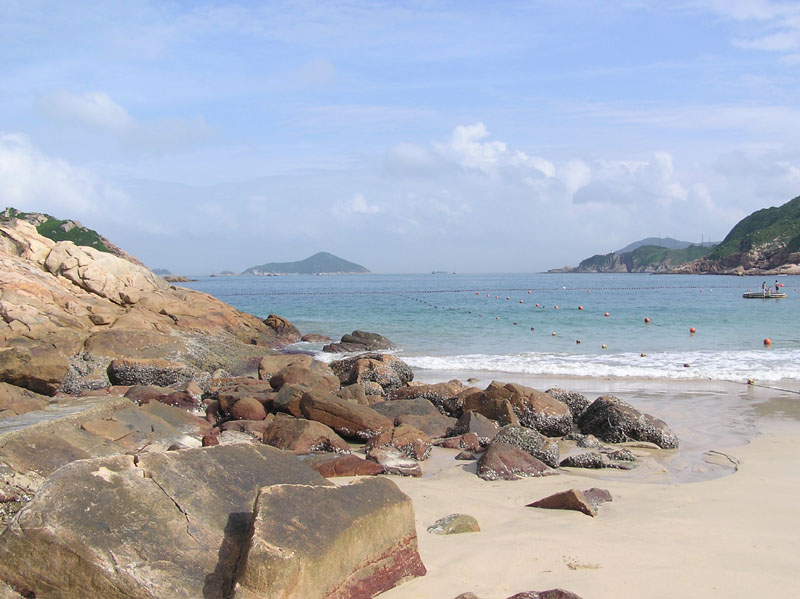 Shek O - The "rocky bay" facing the South China Sea (Photo taken by Alan Mak)